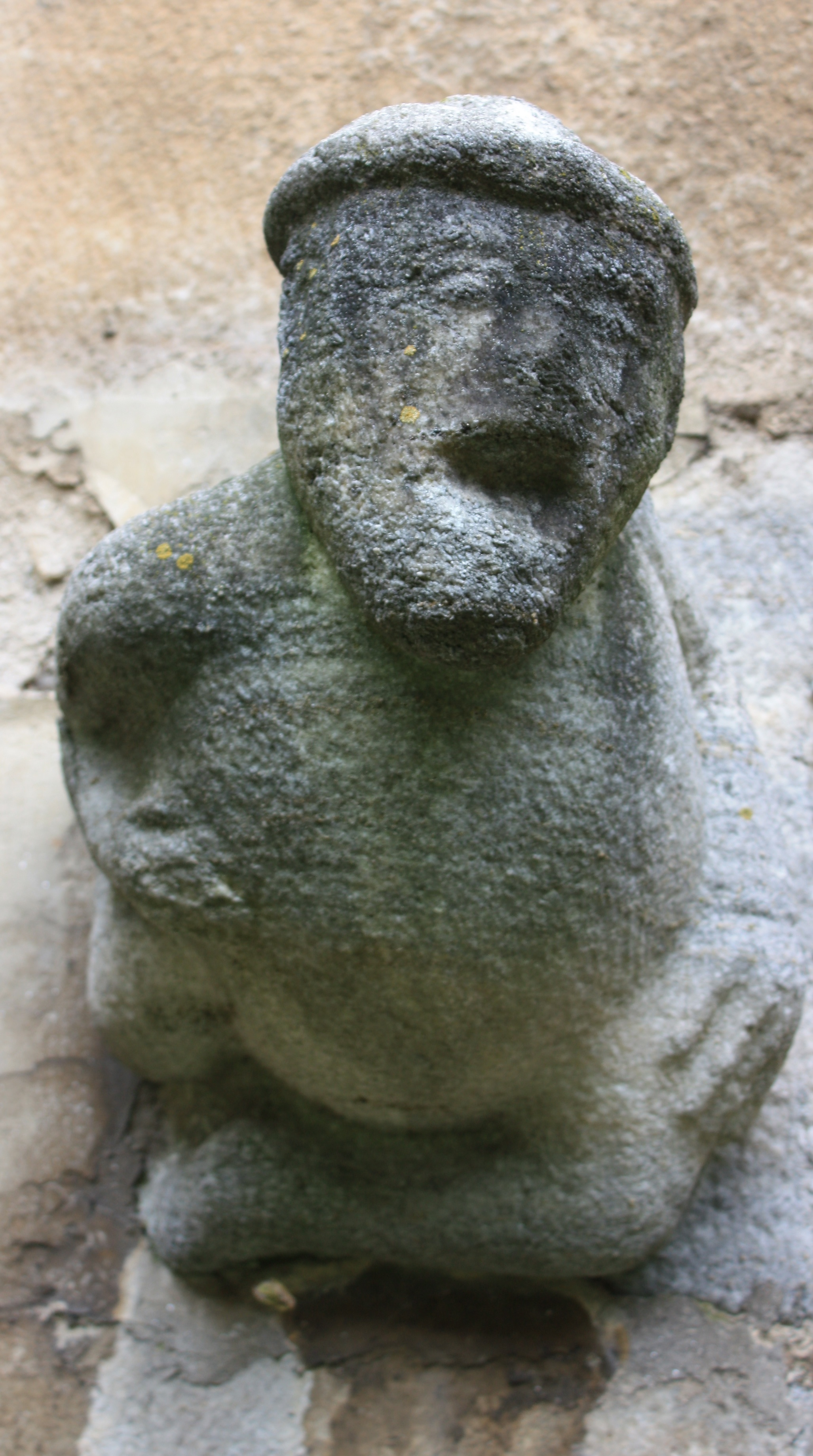 Parish church Saint Andrew - Chimera Locality: Sankt Andrä Community:Sankt Andrä